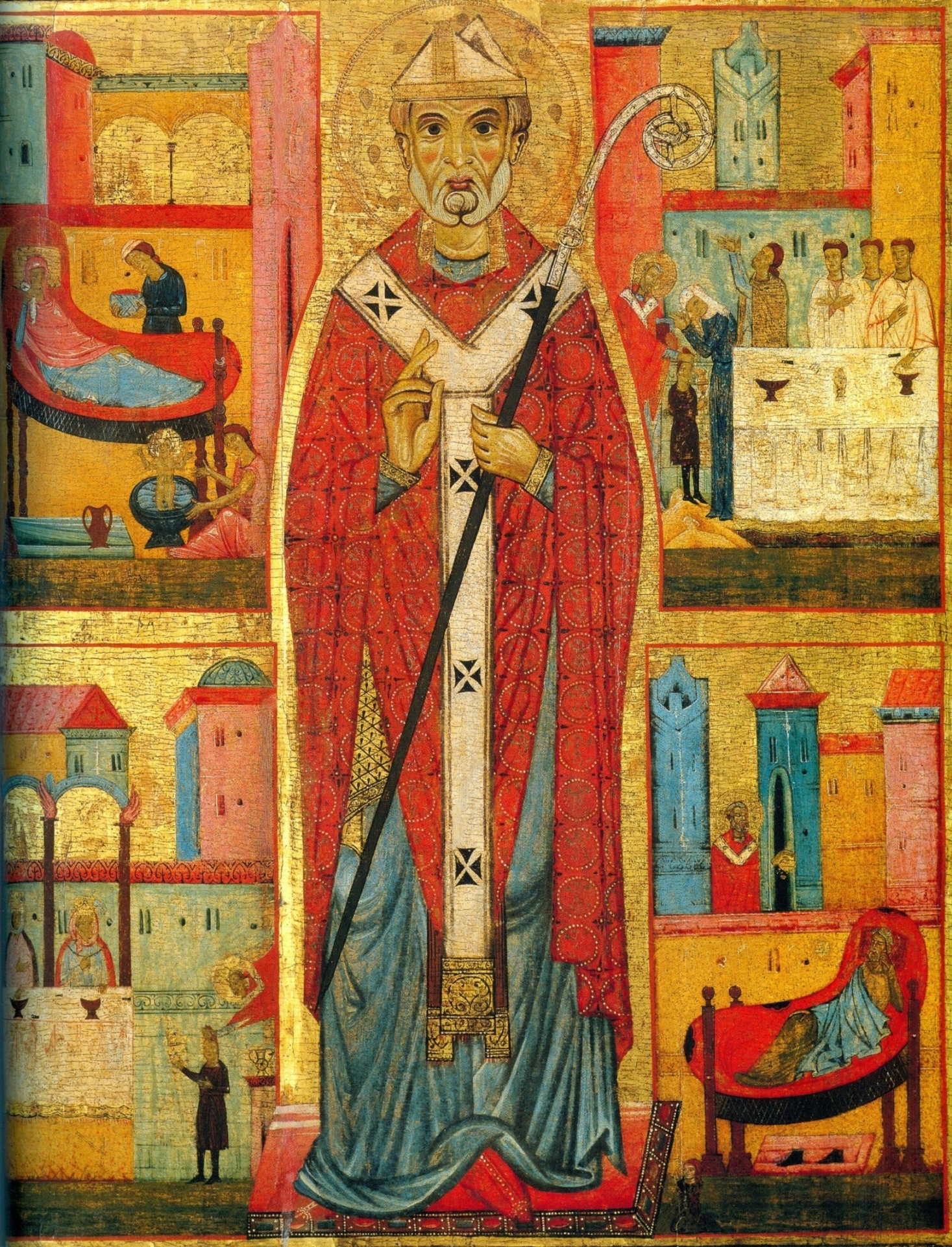 Michele di Baldovino, Dossale San Nicola e storie della sua vita, II meta del XIII secolo, Peccioli, Prepositura di San Verano